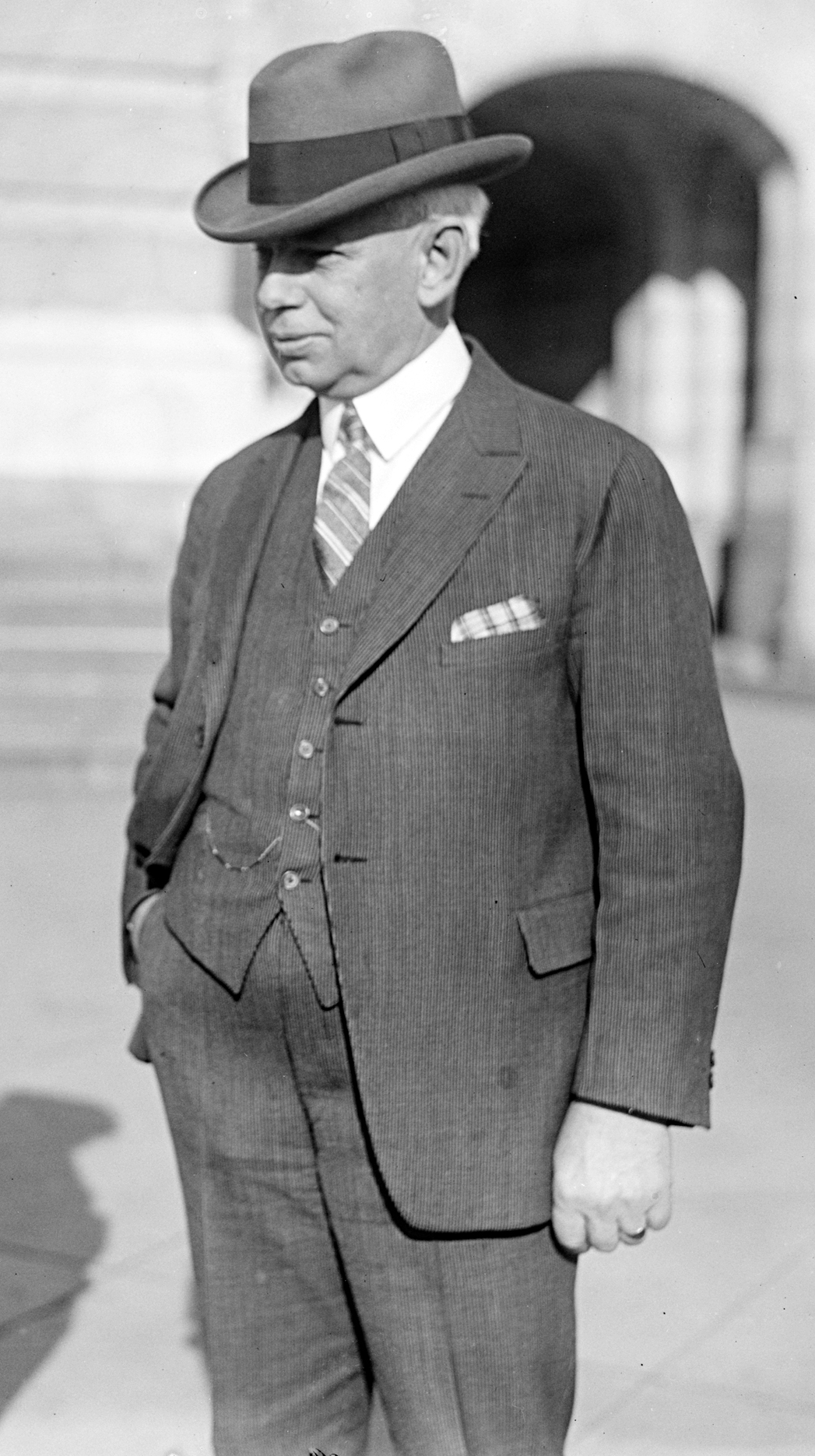 Grant M. Hudson, US Representative from Michigan